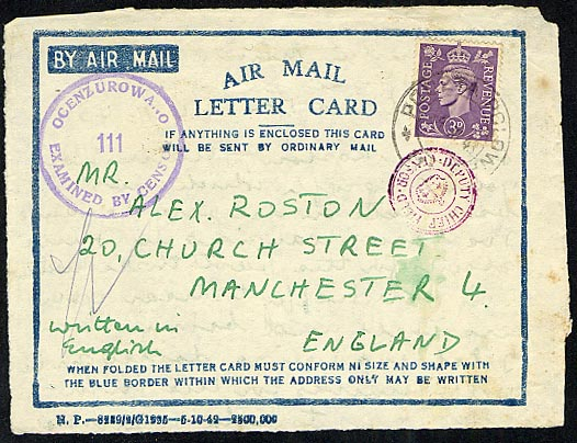 Air Mail Letter Card from 1942 mailed in 1943 to Manchester with two censor handstamps